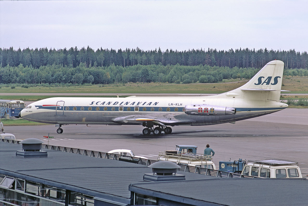 Scandinavian Airlines System Sud SE-210 Caravelle III LN-KLH at Stockholm-Arlanda Airport